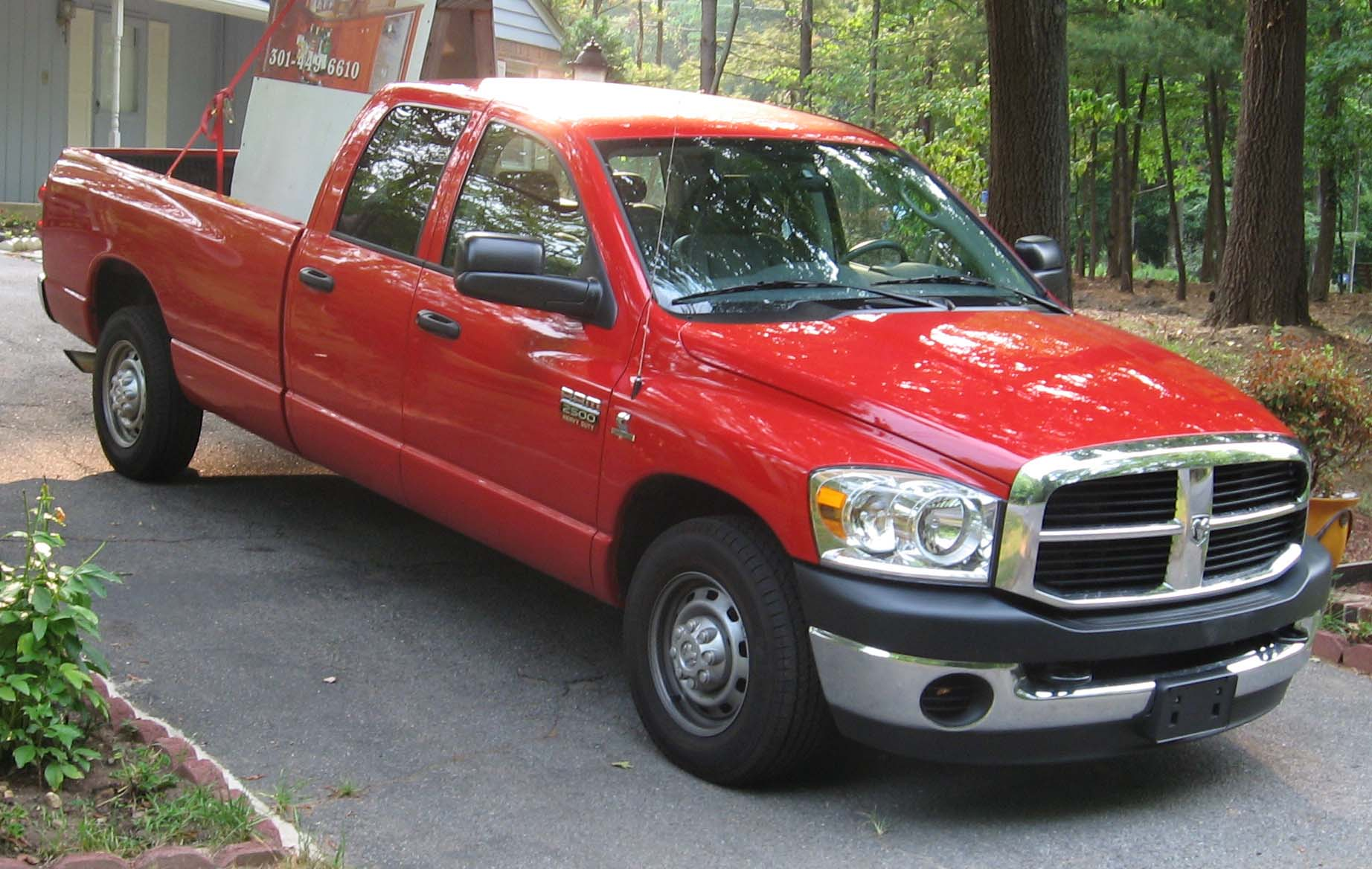 2006-2007 Dodge Ram photographed in USA.